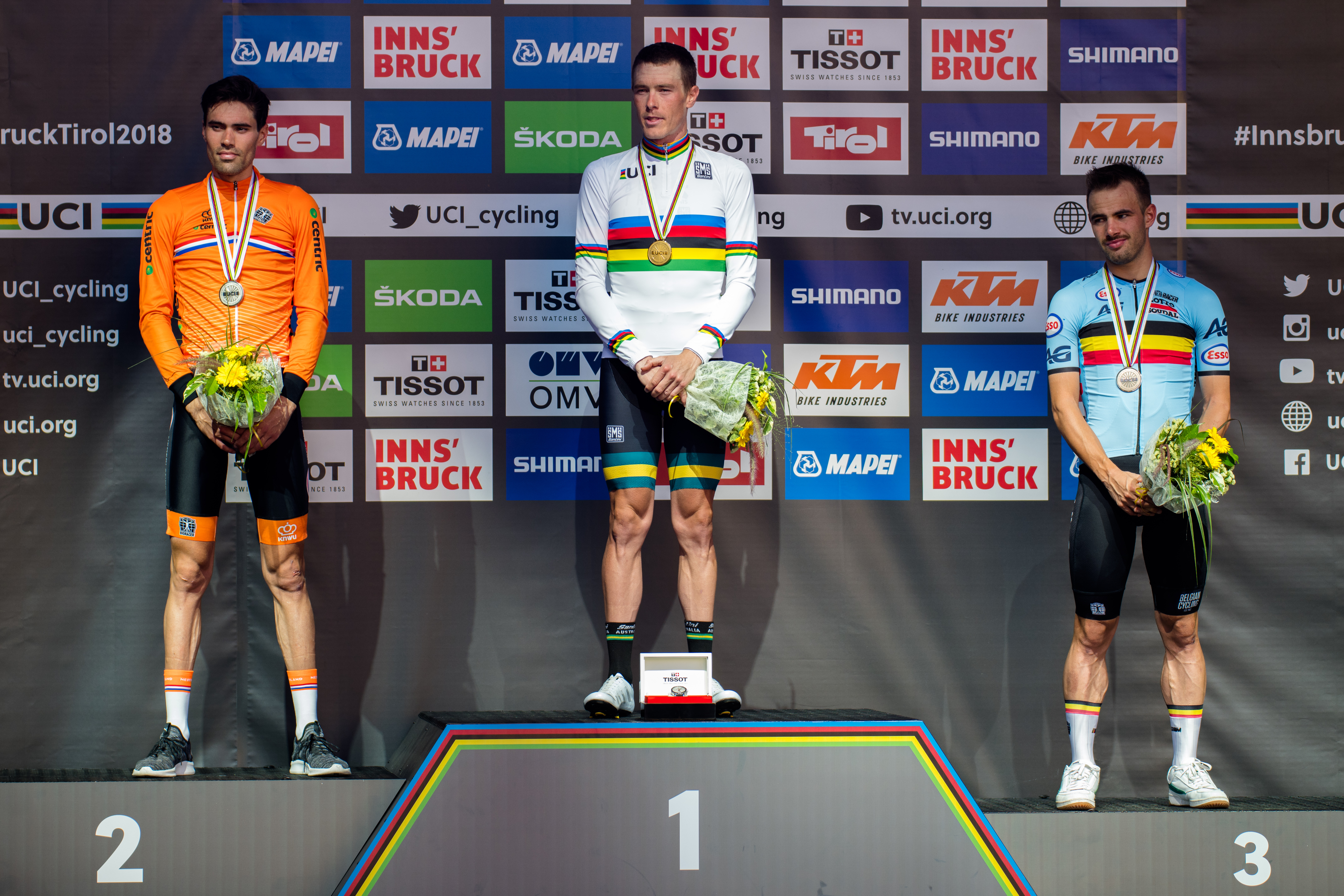 2018 UCI Road World Championships Innsbruck/Tirol Men's Individual Time Trial. Picture shows: Tom Dumoulin of the Netherlands, winner Rohan Dennis of Australia and Victor Campenaerts of Belgium.